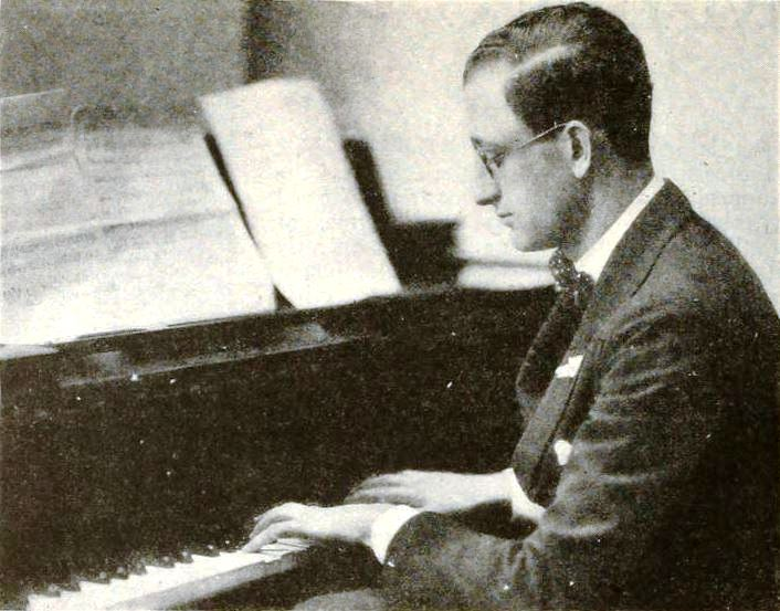 American film composer Louis Silvers, page 54 of the October 1921 Photoplay.